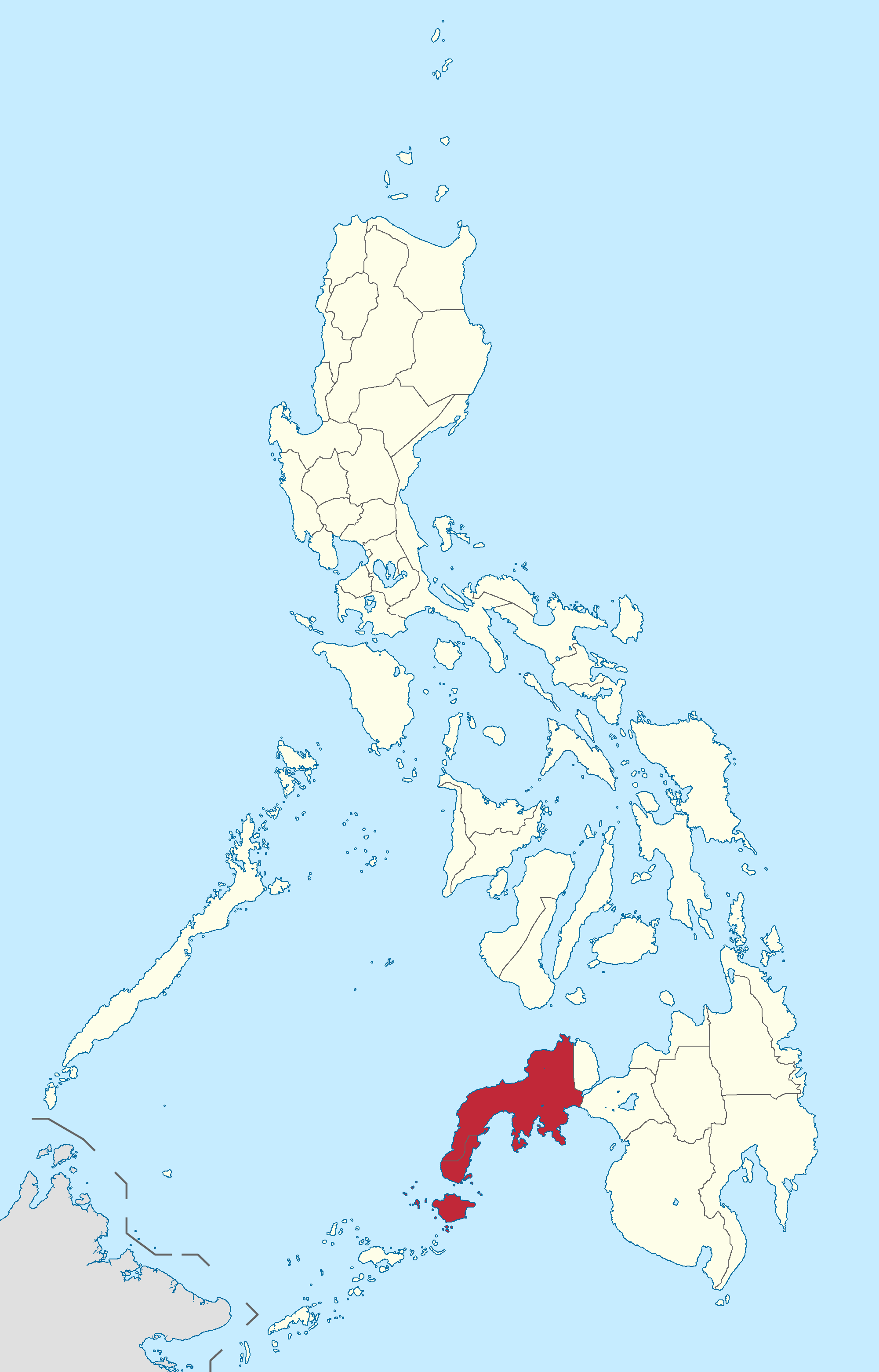 Locator map of Zamboanga province (1914-1952)Tagalog: Kinaroroonan sa mapa ng lalawigan ng Zamboanga at Lungsod Zamboanga